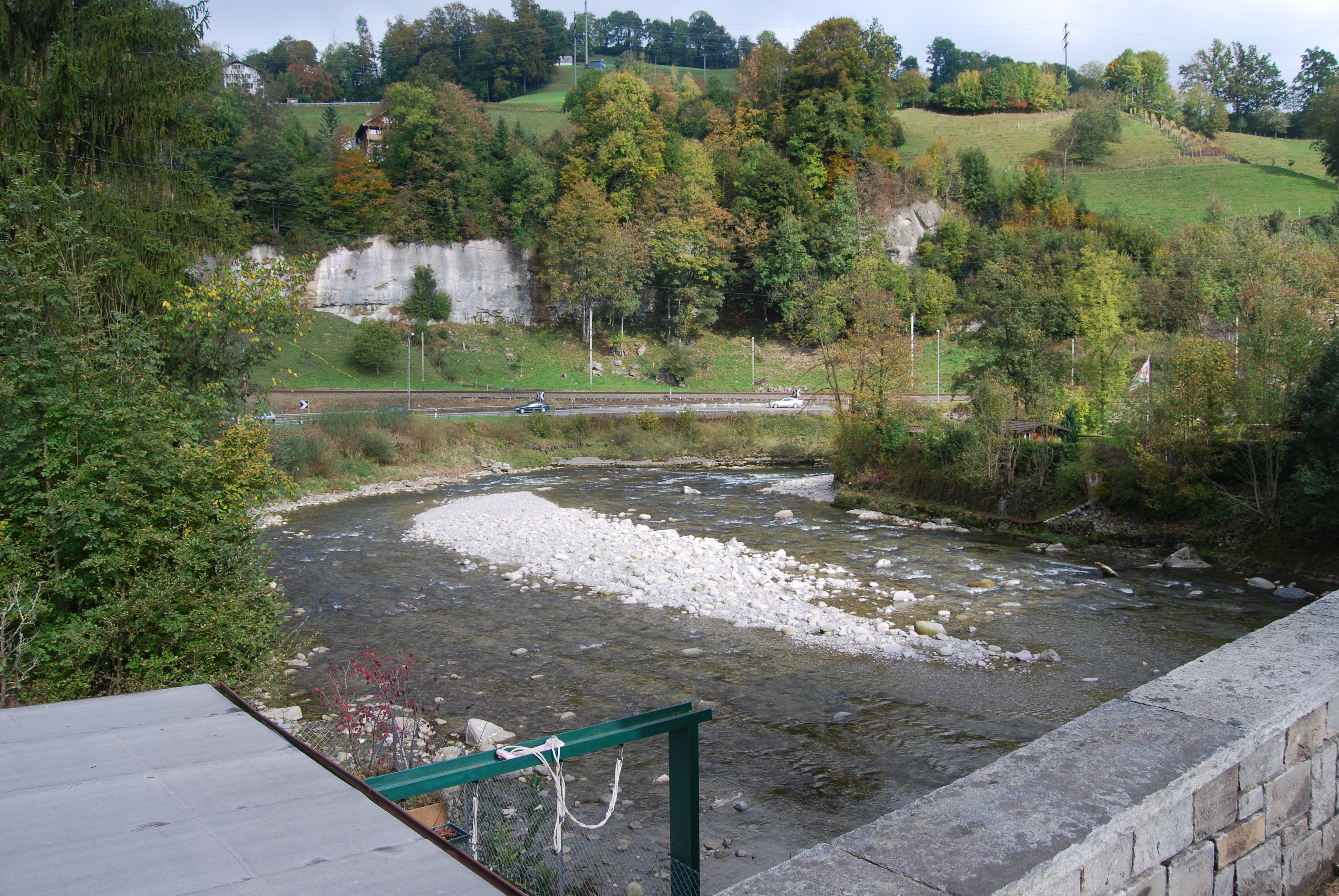 River Kleine Emme at Werthenstein, canton of Luzern, SwitzerlandEsperanto: Rivero Eta Emme en Werthenstein, Kantono Lucerno, Svislando